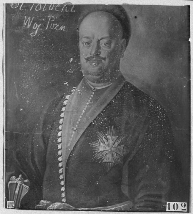 S. Potocki